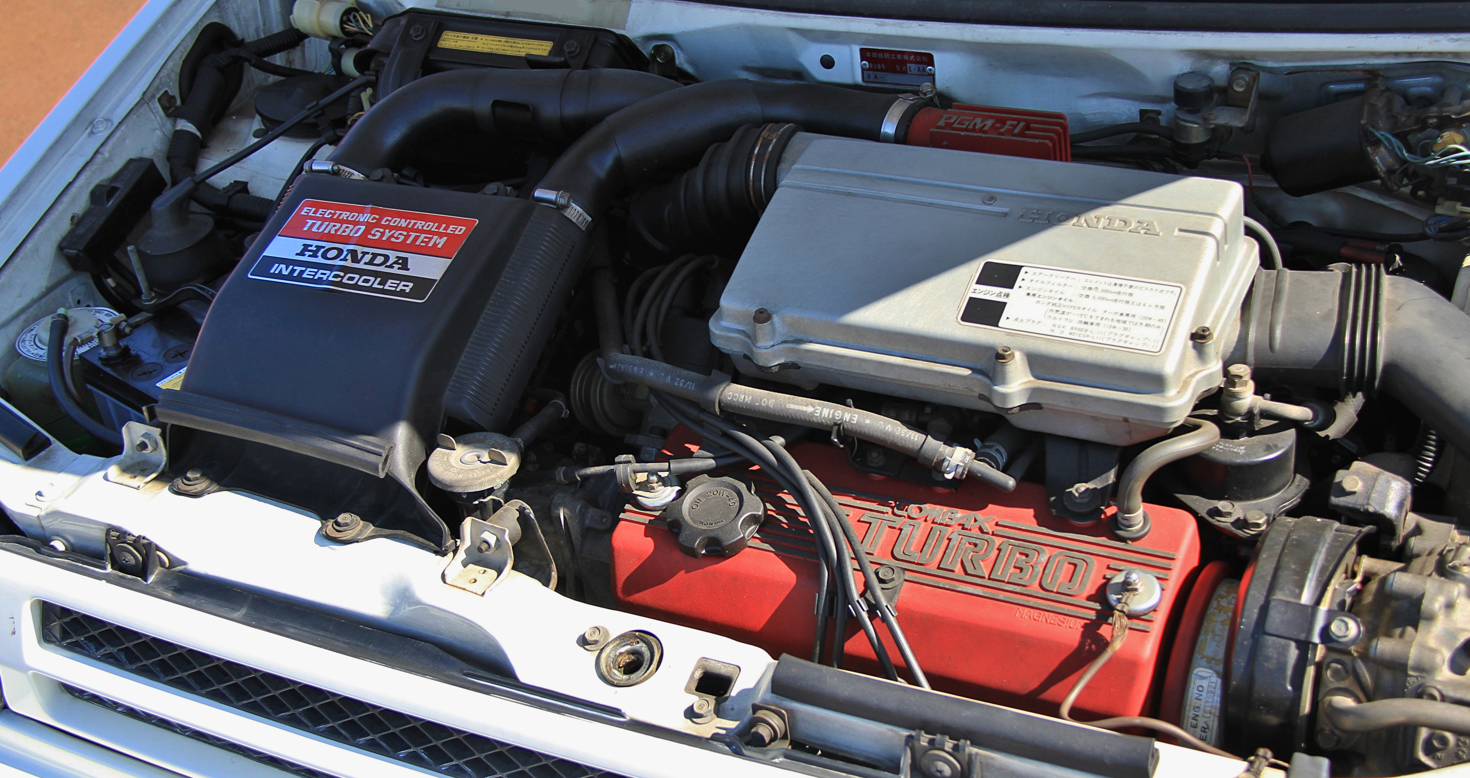 Honda City Turbo II